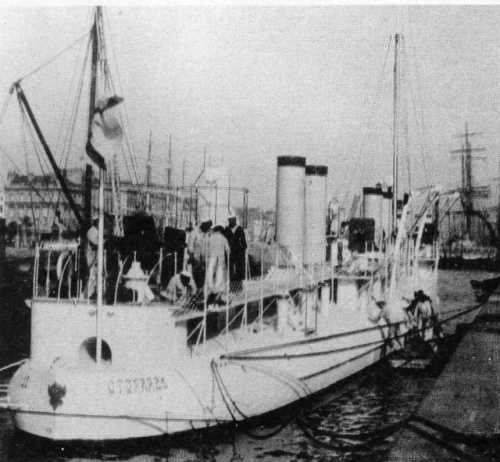 The Imperial Russian torpedo boat Strelyad' (Vynoslivyi) in Le Havre.